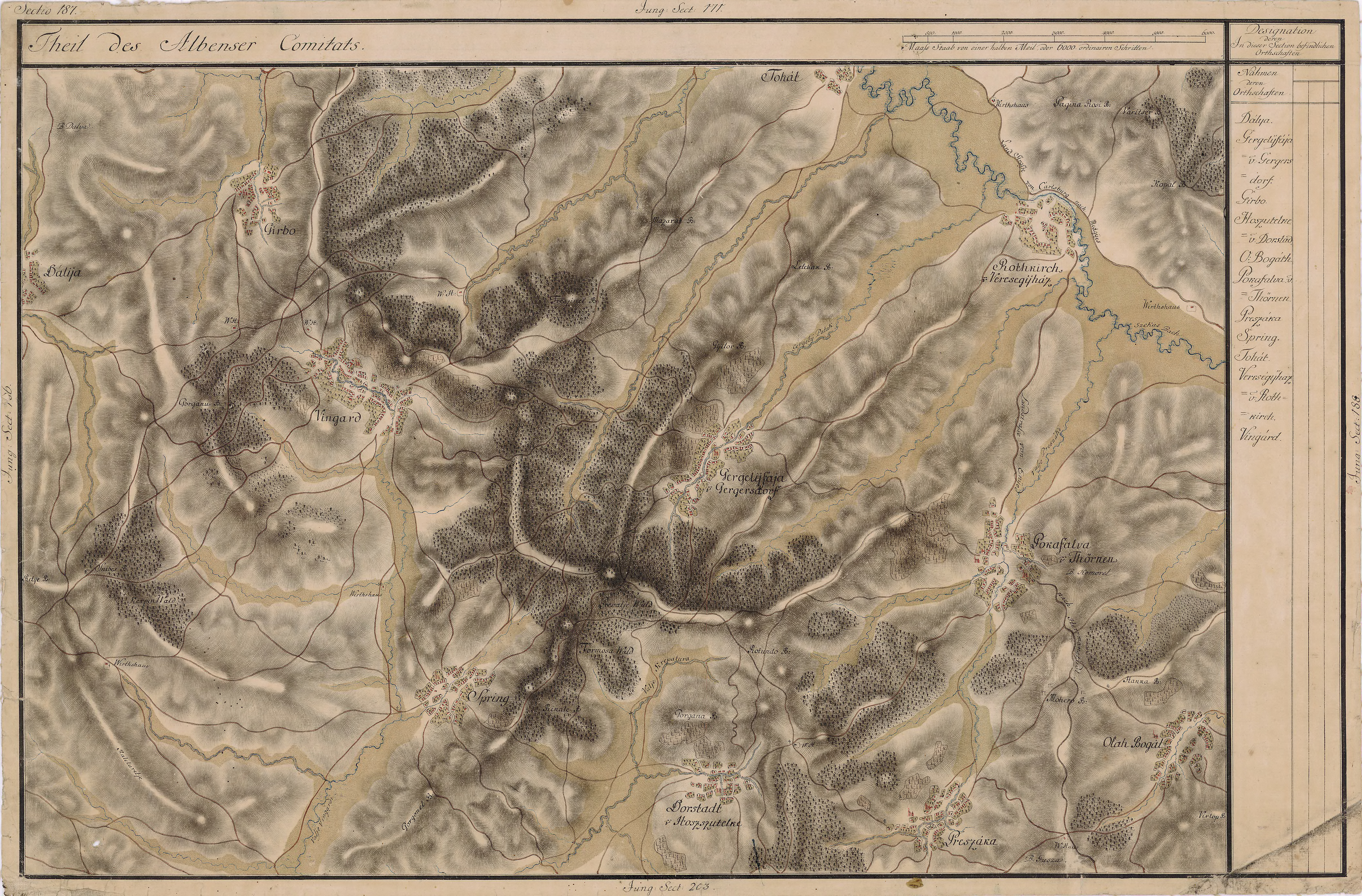 Grand Duchy of Transylvania, 1769-1773. Josephinische Landaufnahme pg.187